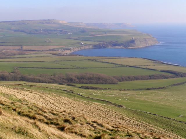 View east-southeast from Tyneham Cap Looking east-southeast from the highest part of Tyneham Cap on the Purbeck limestone ridge, across Kimmeridge Bay towards St Aldhelms Head. The land in the lower half of the photograph is all within the Lulworth Gunnery Ranges and public access is only permitted at certain times (most weekends and holidays) along the waymarked Range Walks. The subject grid reference for this photo is given as the wooded stream valley (Egliston Gwyle) running down from left to right, below the centre of the photo.